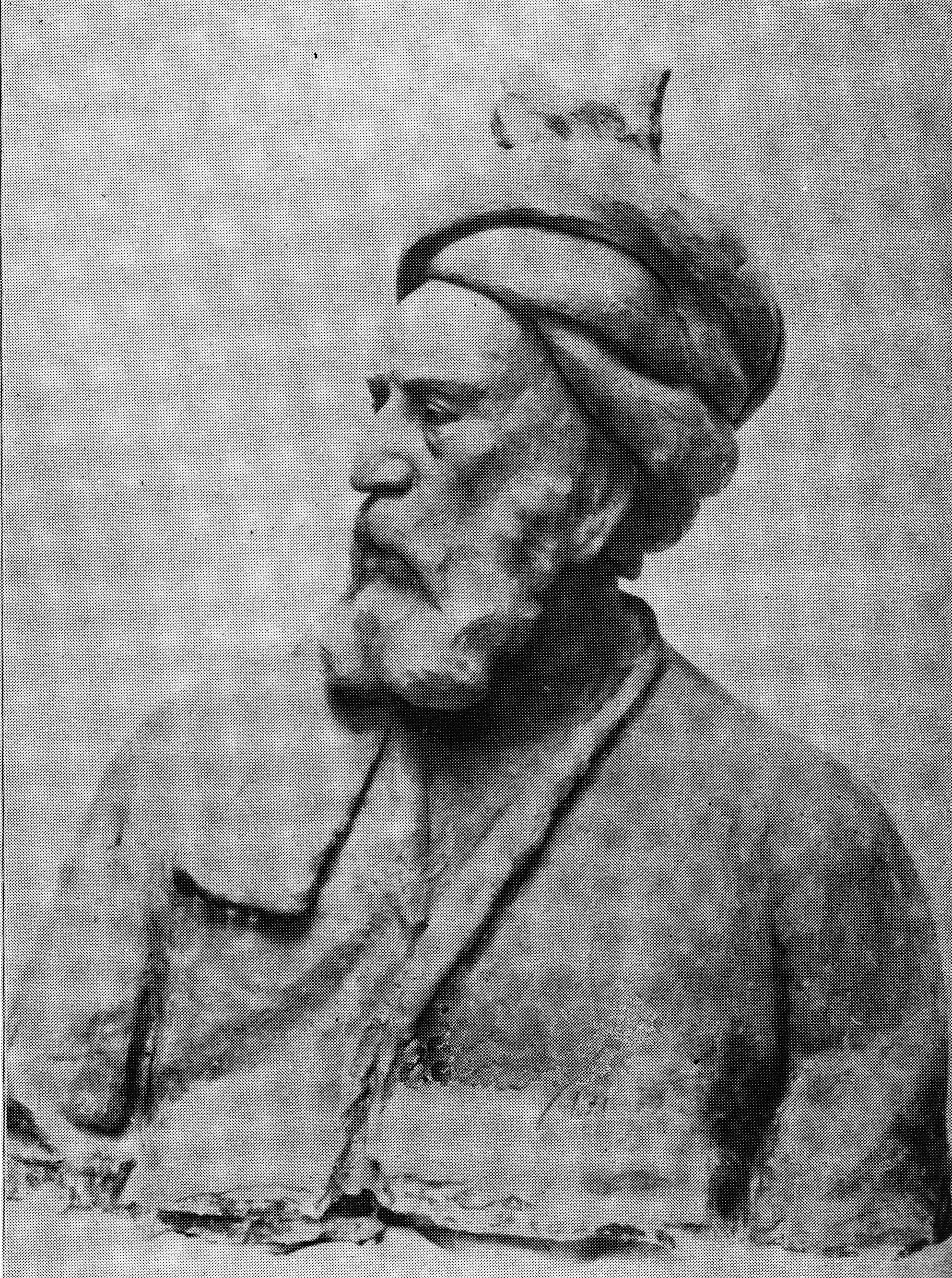 "On occasion of the emilliniem of the most eminent of the all Persian poets, Ferdowsi. Sep/Oct 1934 equal to Mehr 1313 Solar year in Tehran